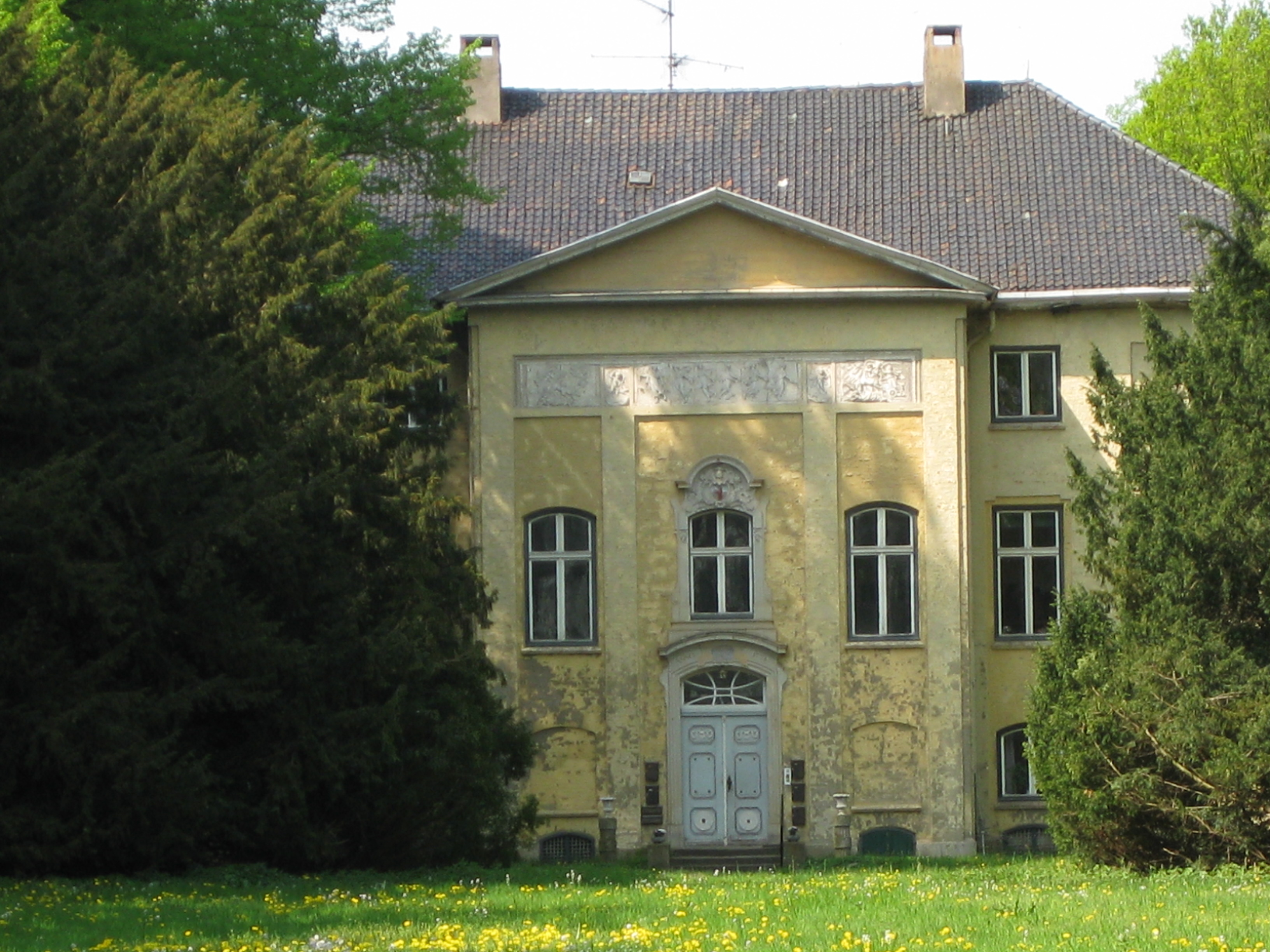 Niendorf Manor in Niendorf near Moisling, a rural district of Lübeck.